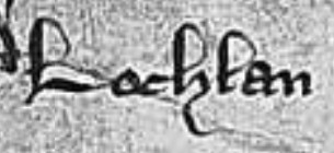 The name of Lachlann Mac Ruaidhrí as it appears in correspondence between John Strathbogie, Earl of Atholl and Edward I, King of England. The source website states that the reference number is "SC 8/90/4461", and that the former reference number was "Parliamentary Petition 275". The source website gives the following note: "The petition is dated to 1304 by Bain, and the earl of Atholl was executed in 1306 (Bain, vol. II, no.1633)".